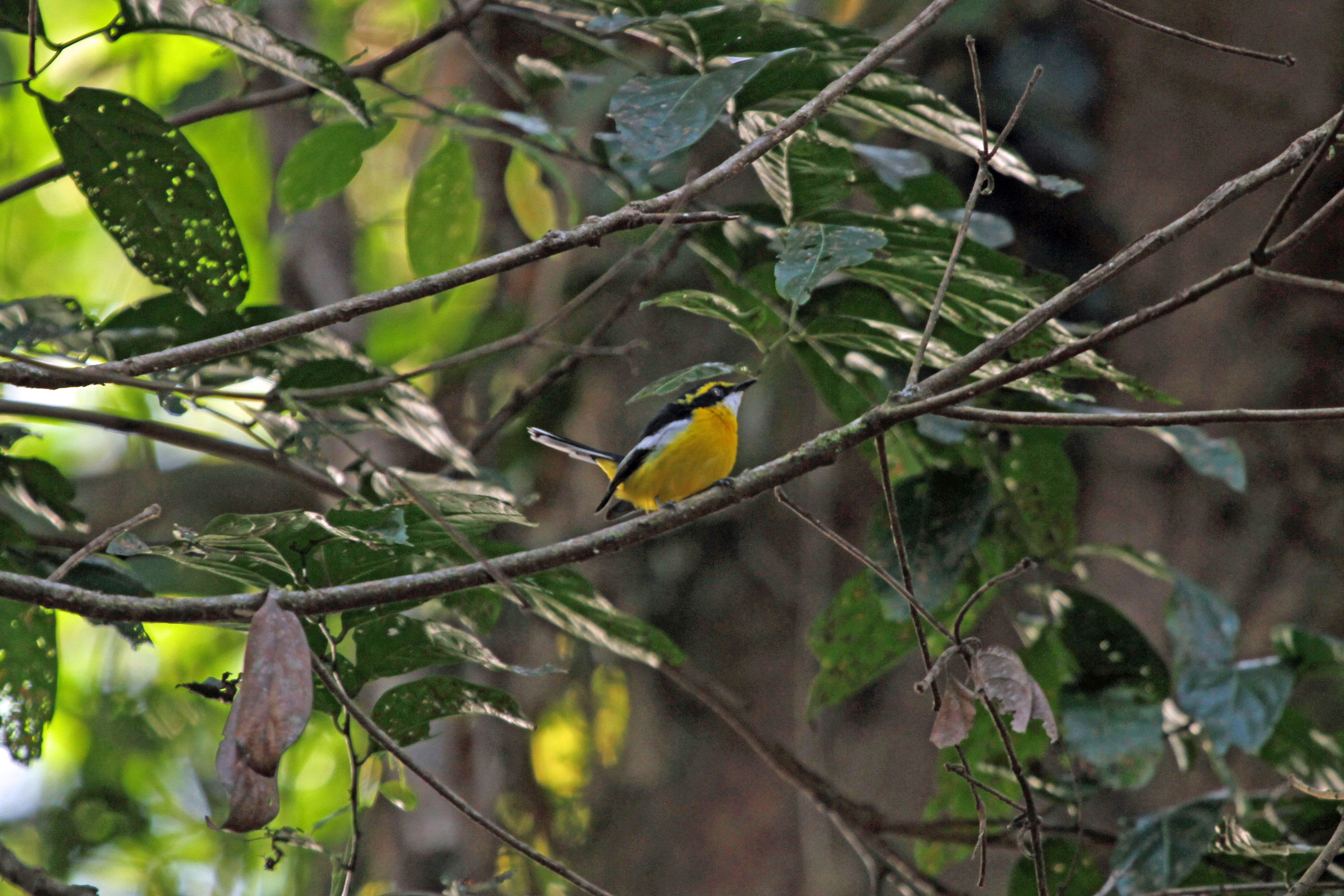 Yellow-breasted Boatbill